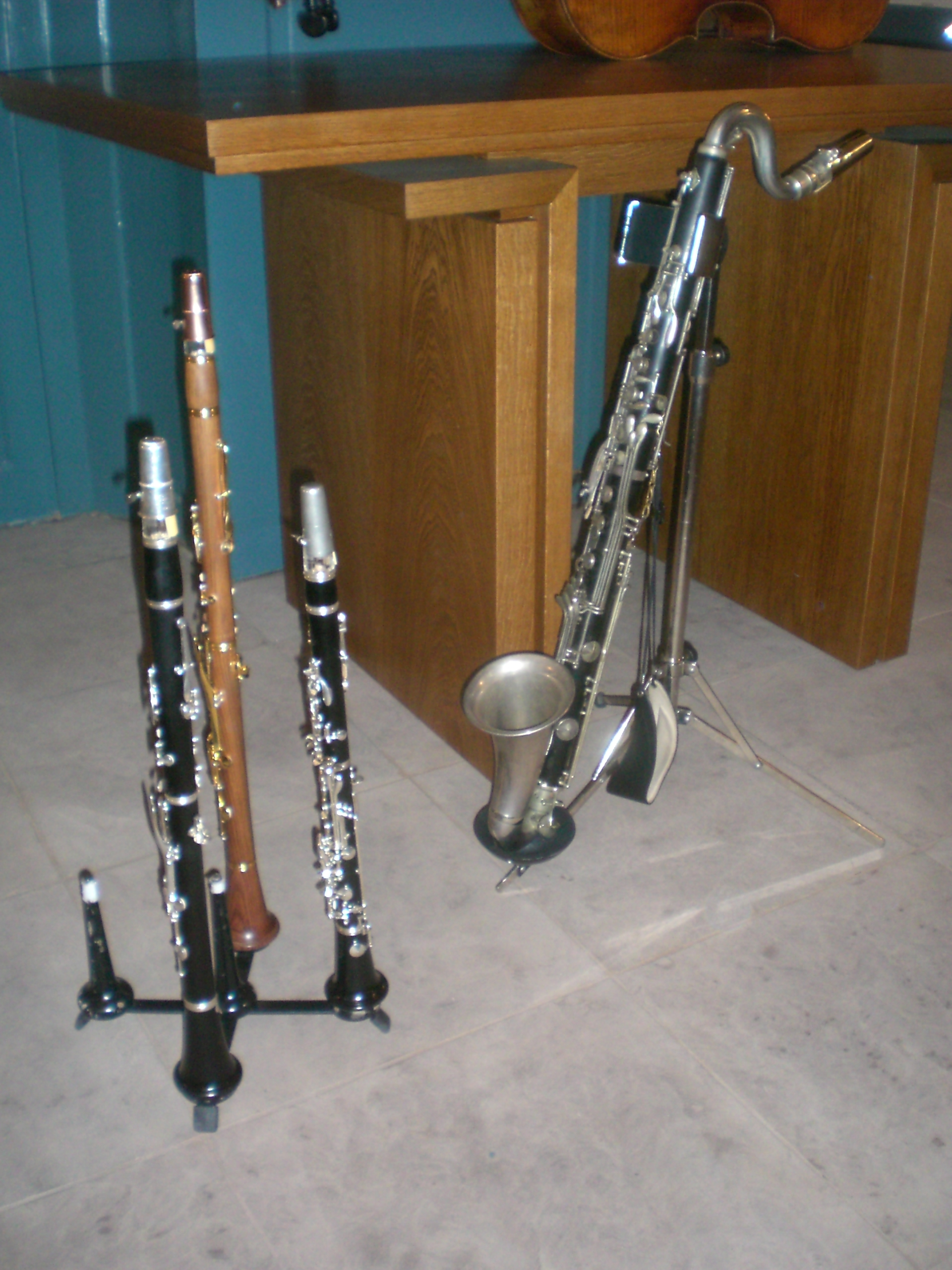 several different clarinets of the Klezmer solist Giora Feidman (during a concert in August 2008)